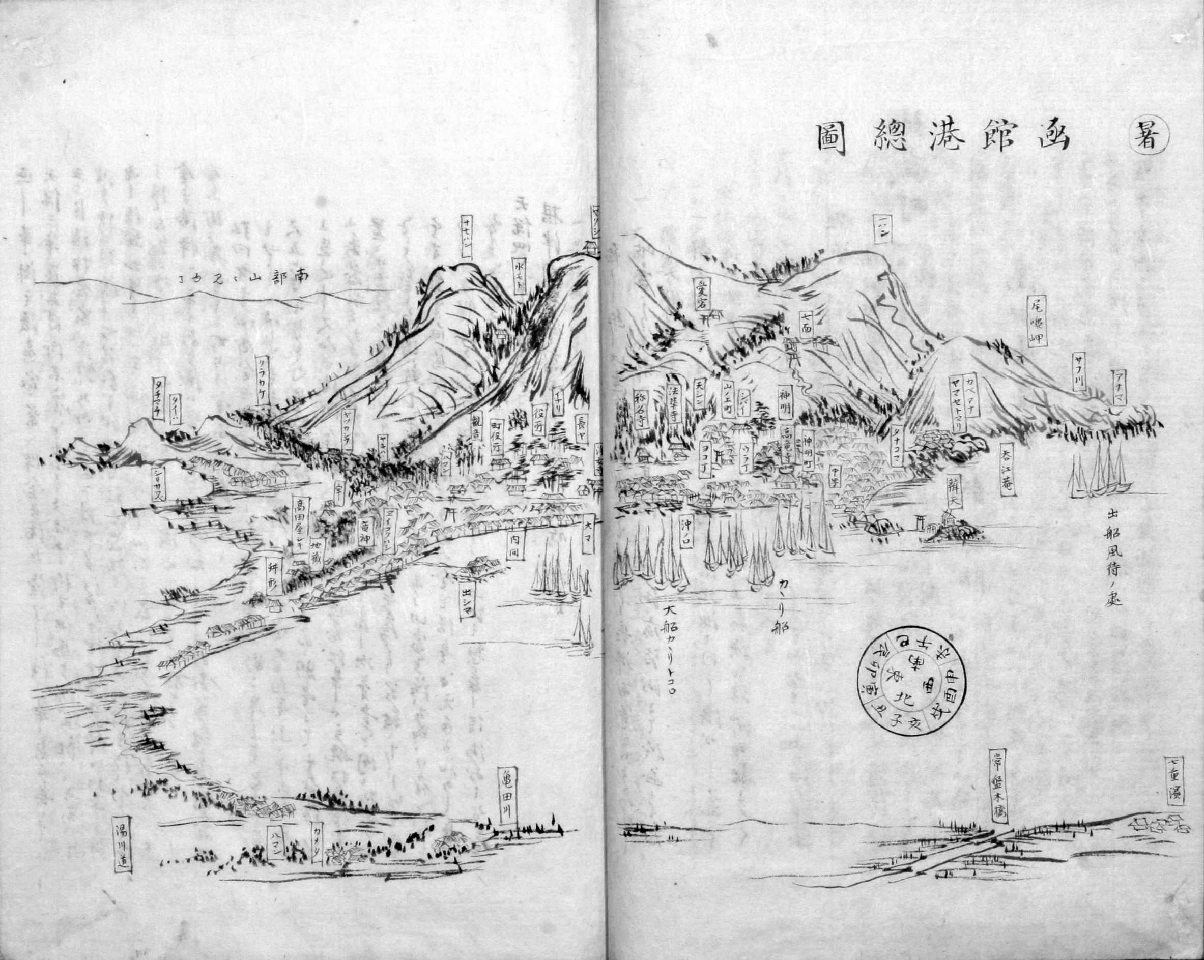 General View of Hakodate Port, double page spread from volume three of Ezo Nisshi by Matsuura Takeshiro, Hakodate City Central Library, Hakodate, Hokkaido, Japan (Diaries of the First Voyage to Ezo)